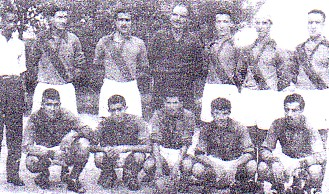 This is a picture of Jeunesse Sportive de Kabylie team of soccer before the first round of Coupe de France de football against Football Club Blida, sunday, september, 25th, 1955.